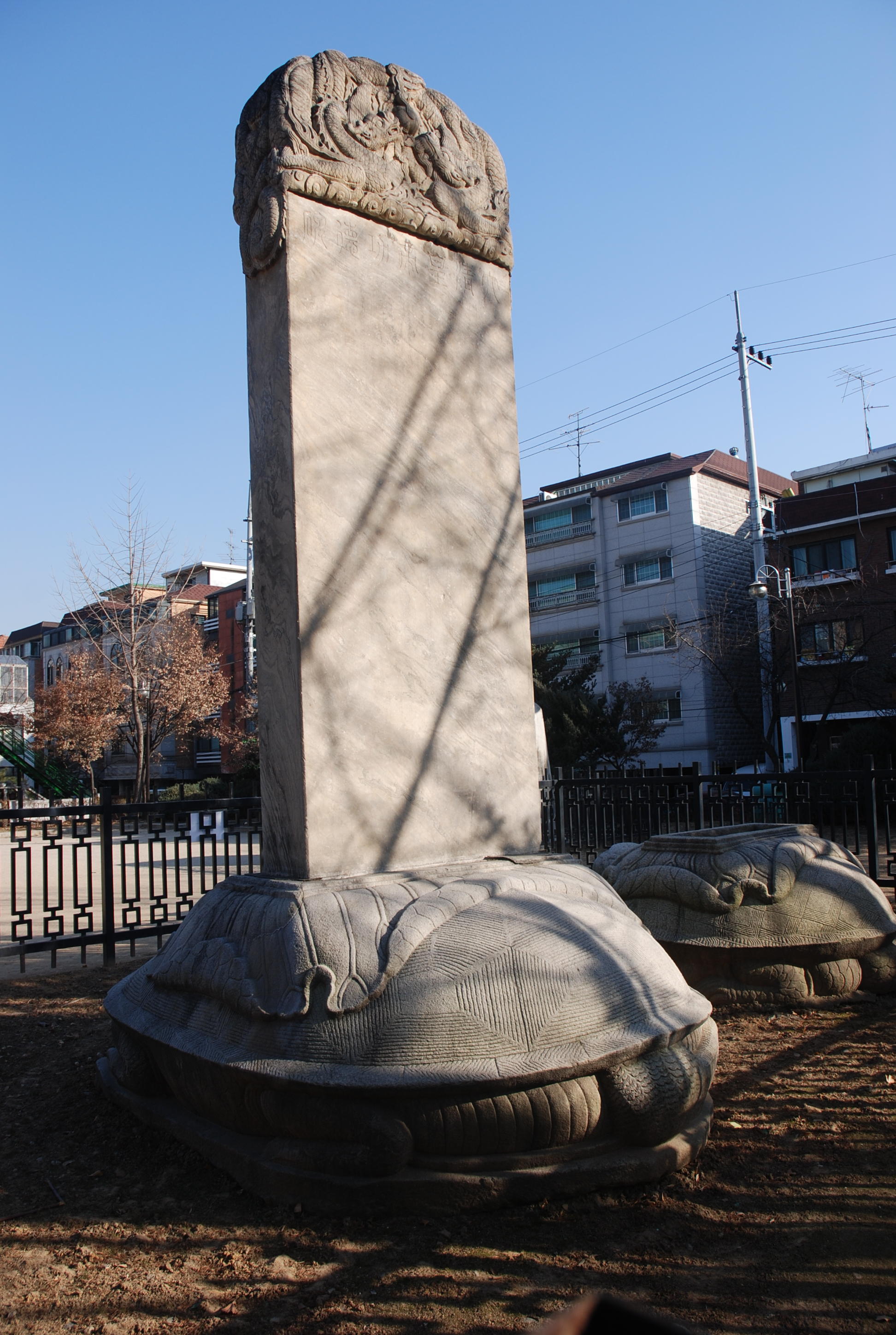 Samjeondo Monument at Seoul, Korea